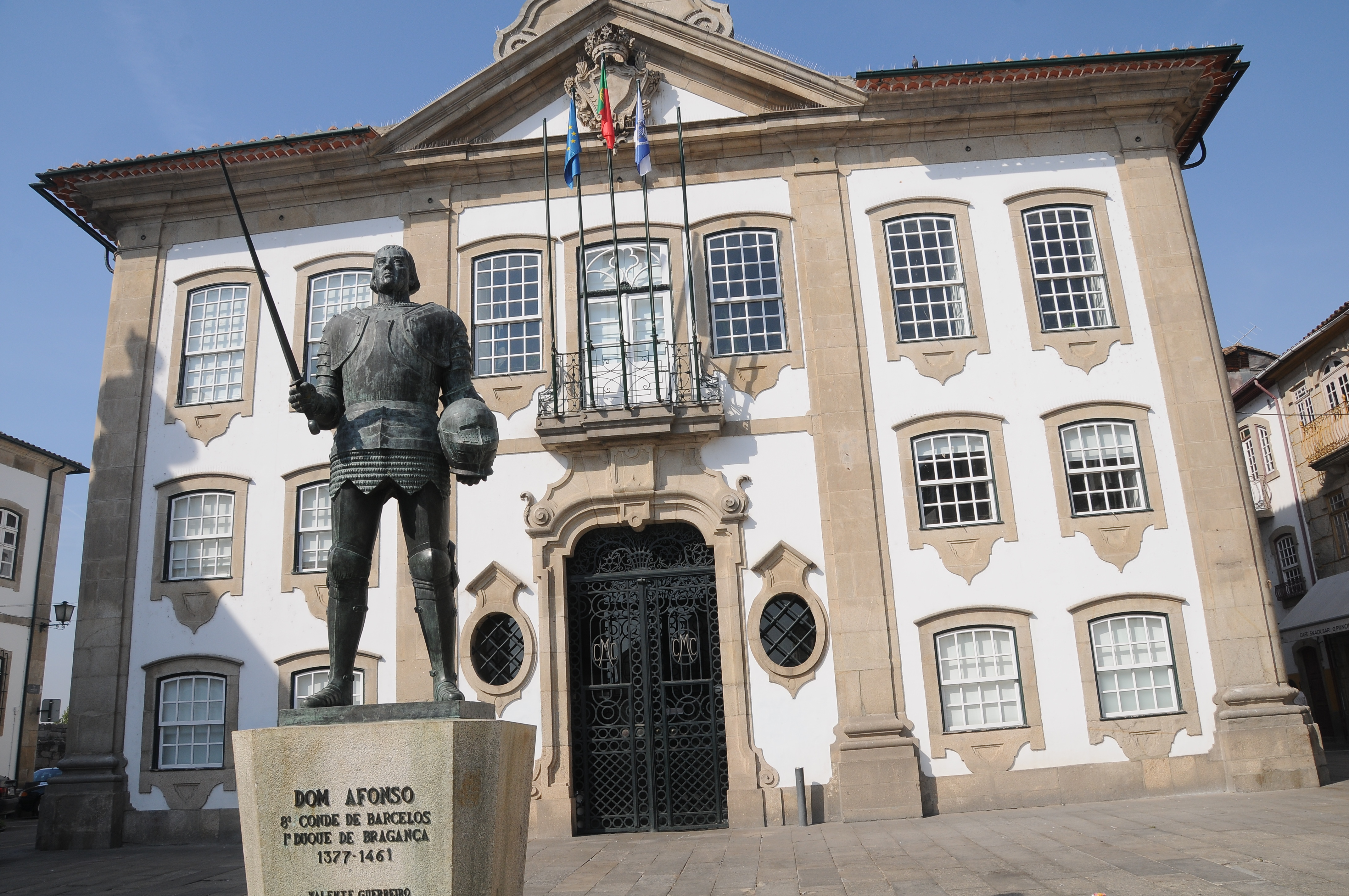 Chaves Town hall, Portugal